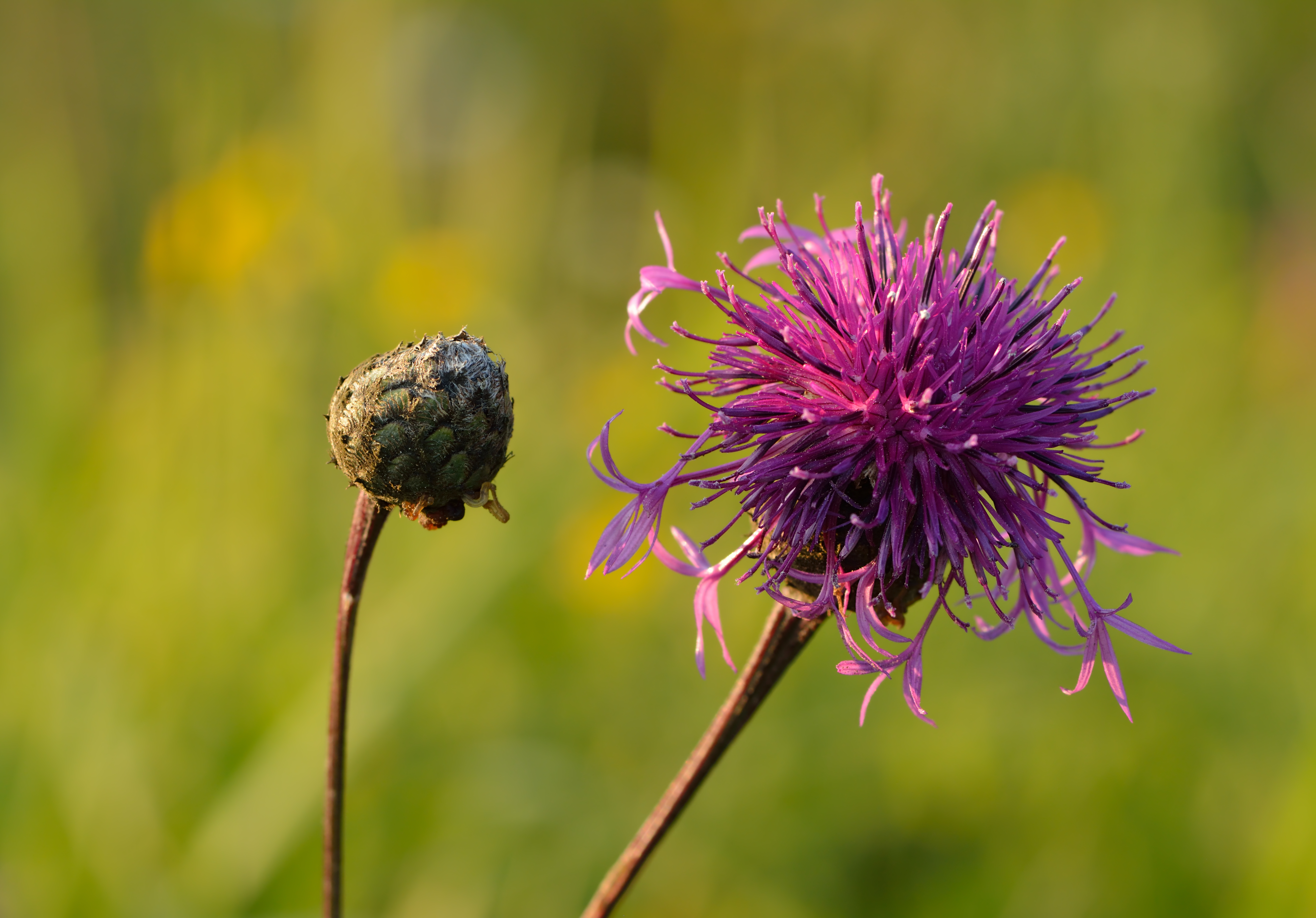 Centaurea scabiosa - greater knapweed in Valingu village, Northwestern Estonia